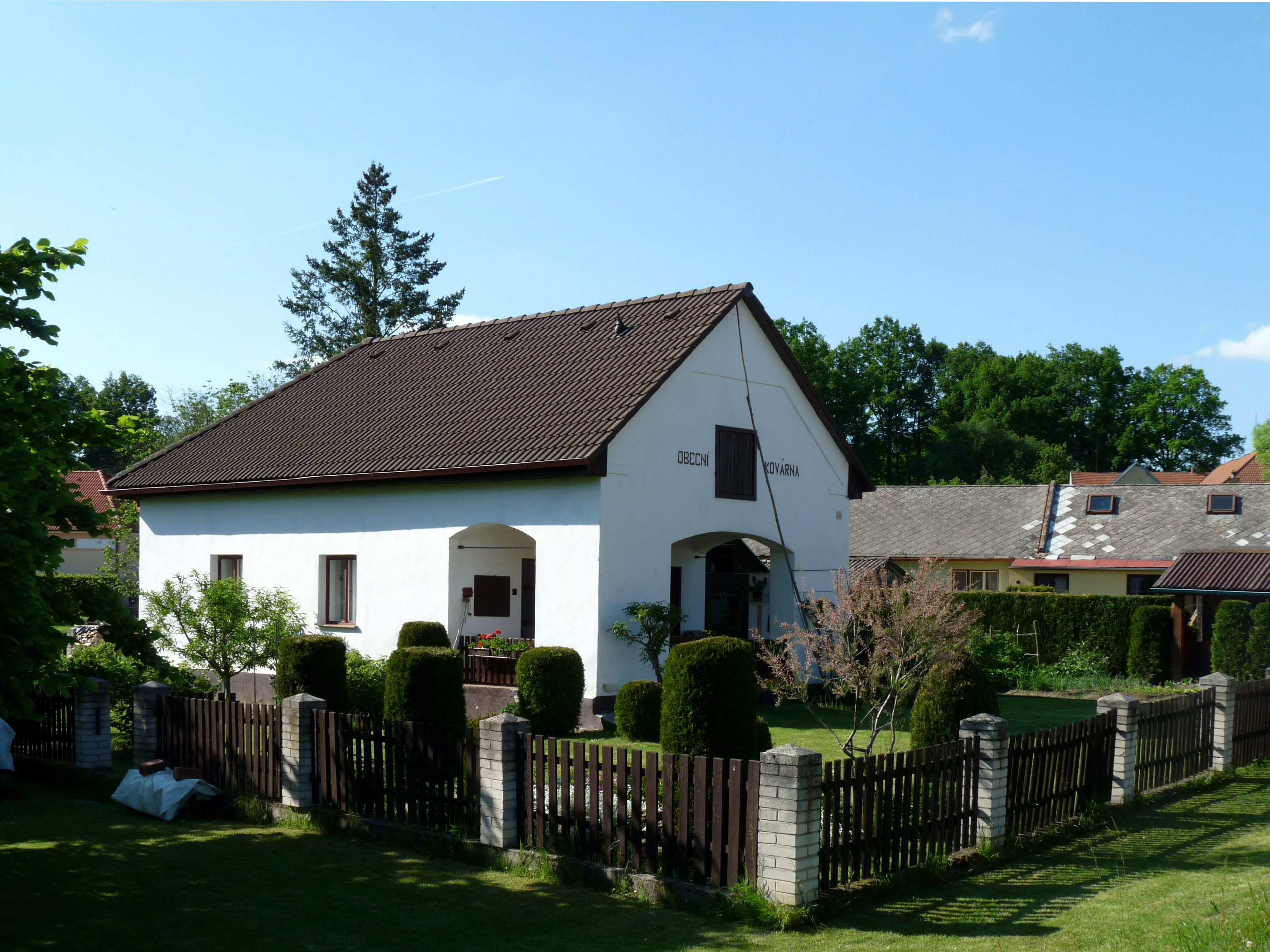 House No 13 in the village of Lékařova Lhota, part of the municipality of Sedlec, České Budějovice District, South Bohemian Region, Czech Republic.